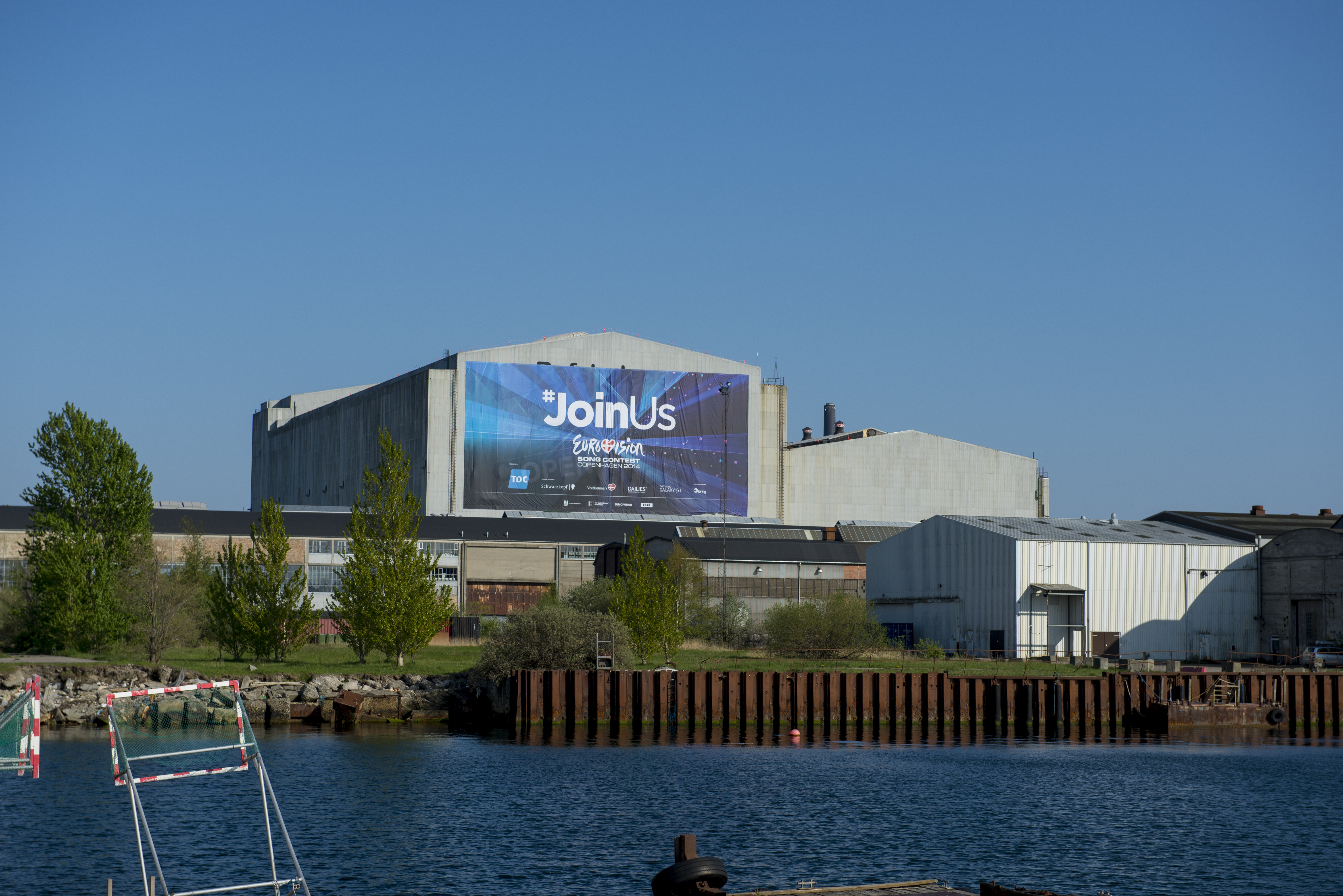 B&W Hallerne right before the Eurovision Song Contest 2014.